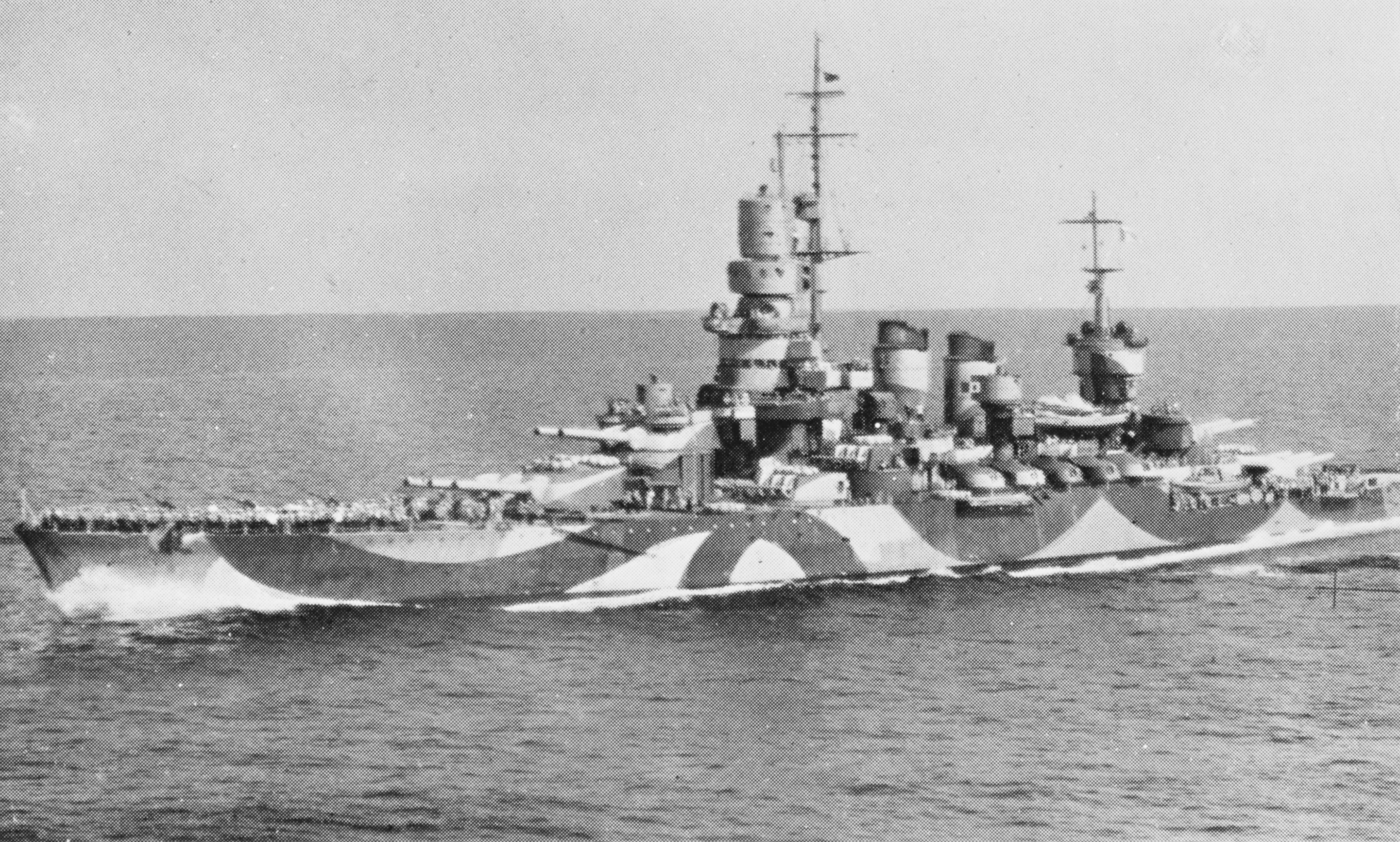 The Italian battleship Andrea Doria surrendering at Malta on 9 September 1943.